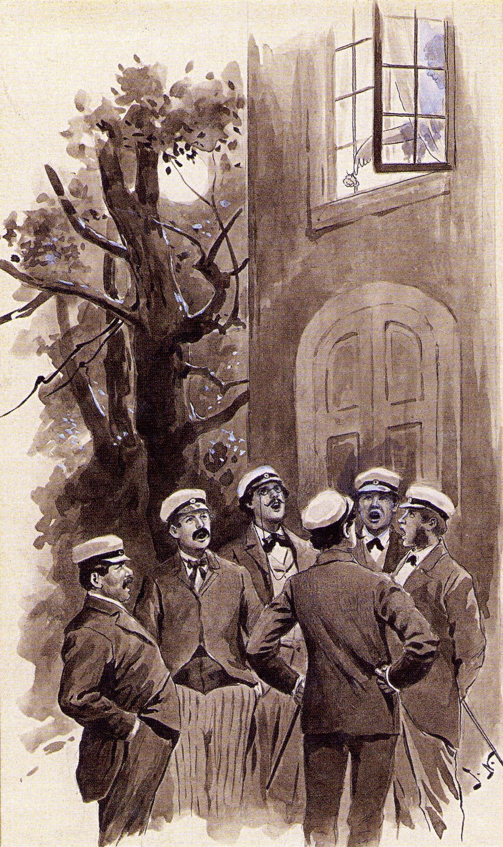 Uppsala students singing a serenade (1900)